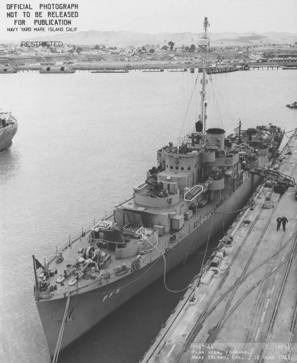 Forward plan view of USS Hoquiam (PF 5) at Mare Island on 14 June 1944. Circled areas modified by Mare Island during yard period.